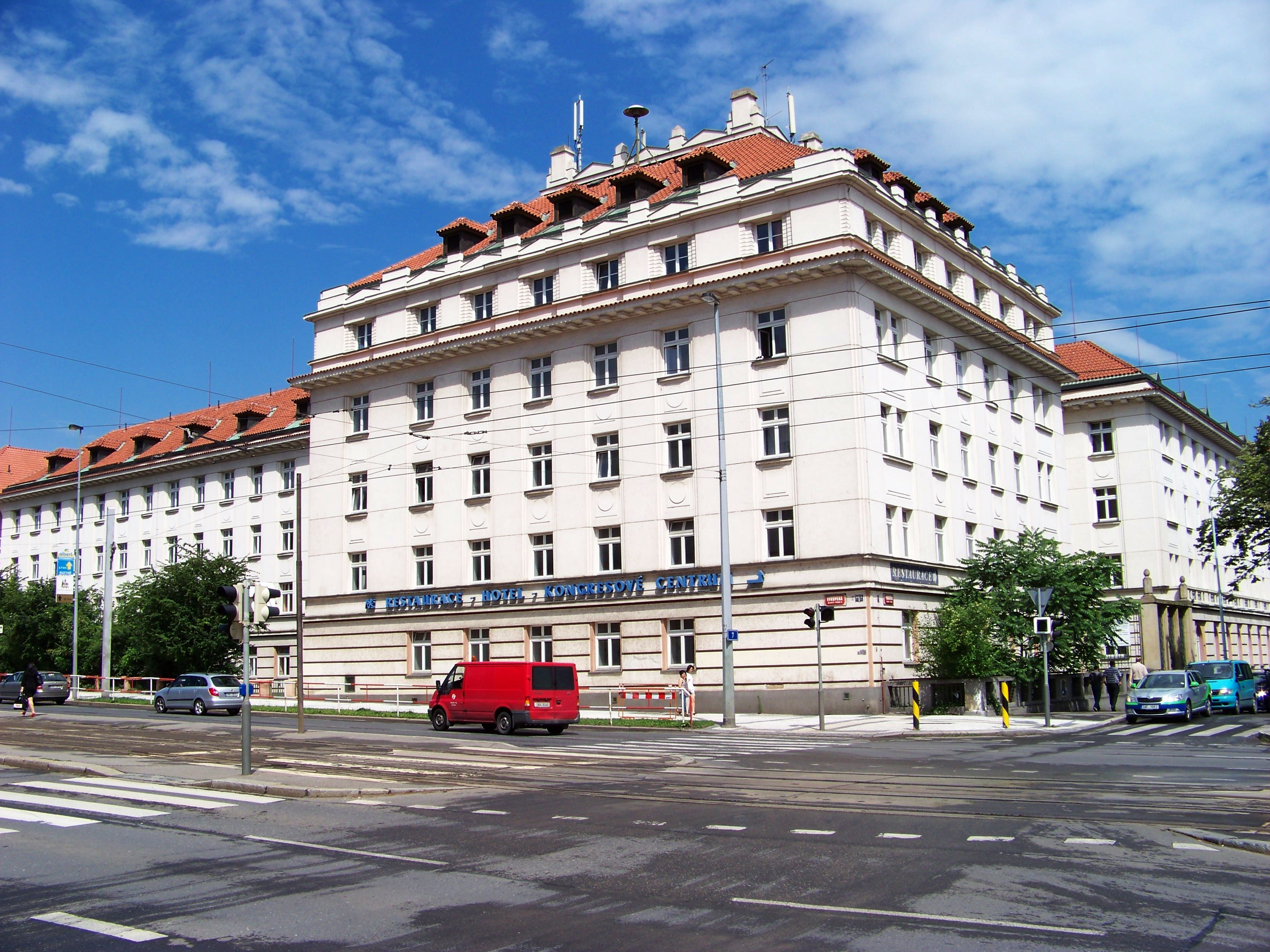 Prague-Dejvice, the Czech Republic. Evropská street, Masaryk Dormitory of Czech Technical University. - OpenStreetMap(Info)